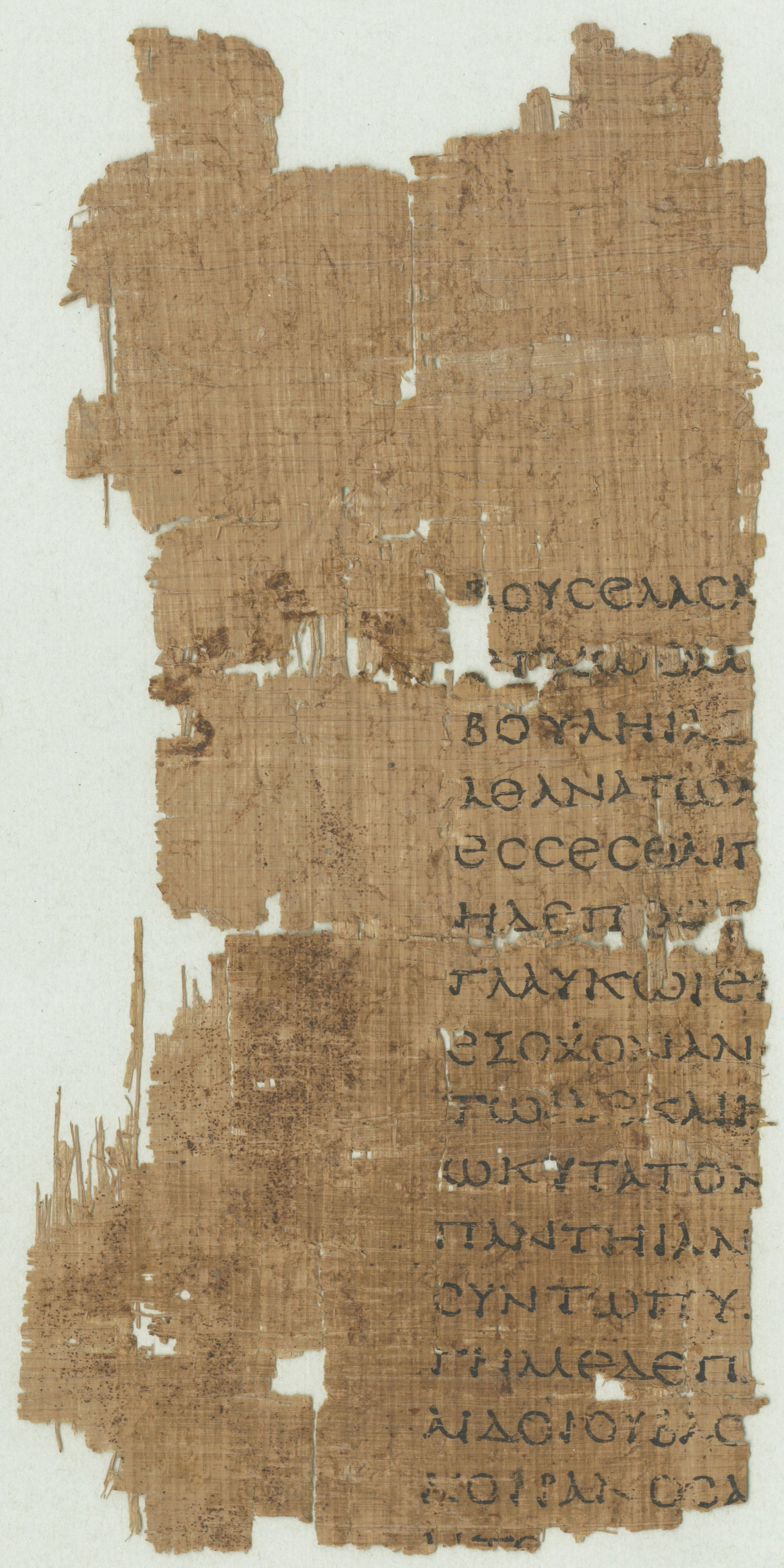 Berlin papyrus 7497 - Hesiod, Catalogue of Women - Fr. 43(a), 76–91 M.-W. (Mestra and Eurynome, Bellerophon)